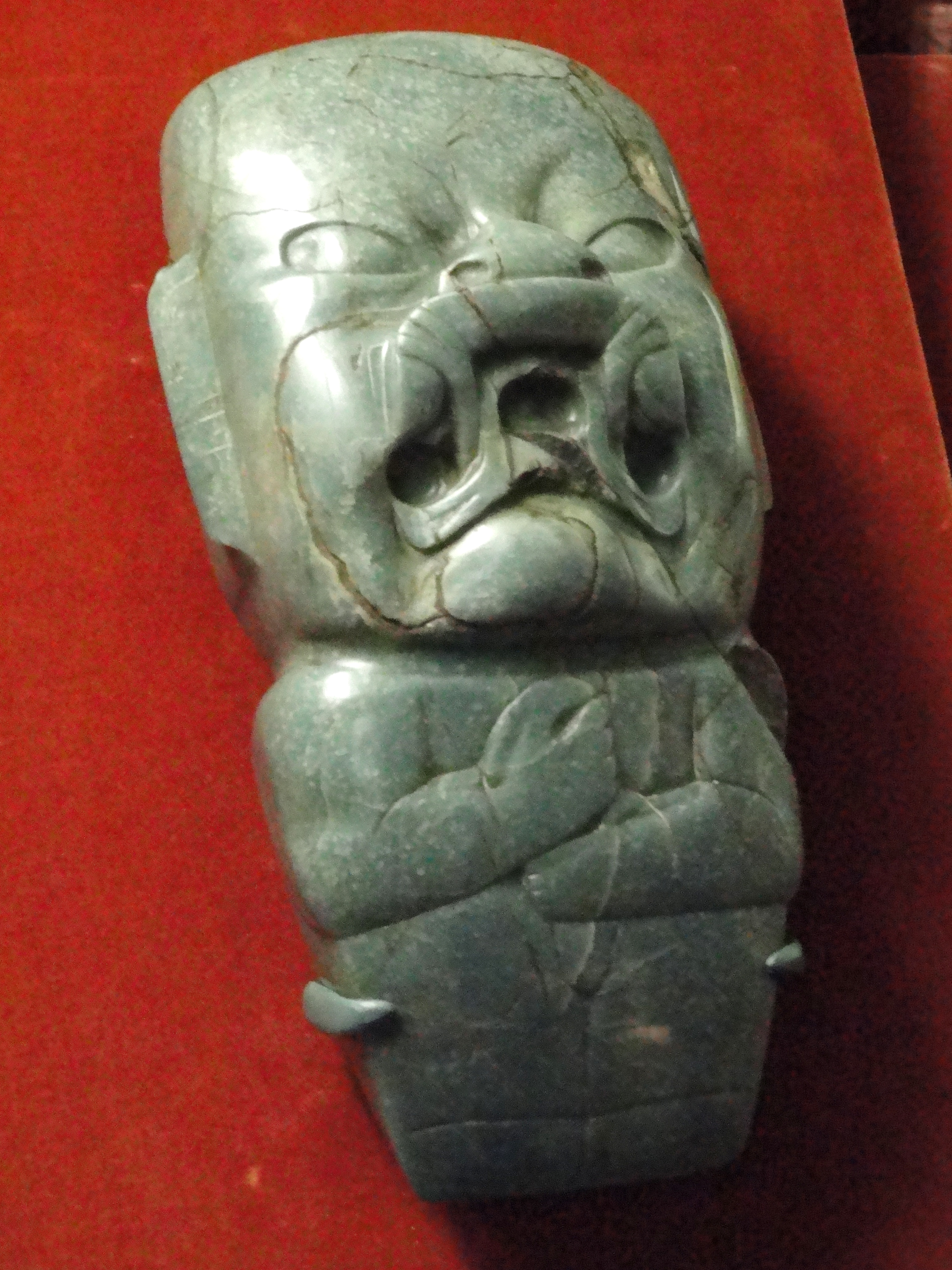 Exhibit in the Mesoamerican collection of the American Museum of Natural History, Manhattan, New York City, New York, USA.